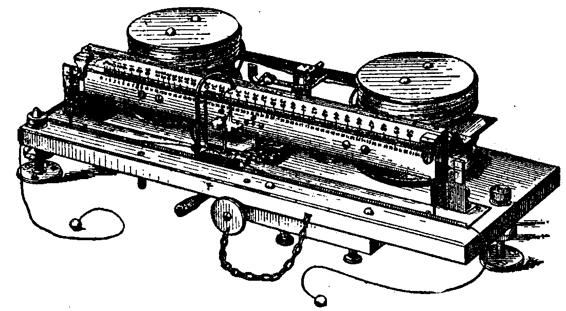 Lord Kelvin's Ampere balance